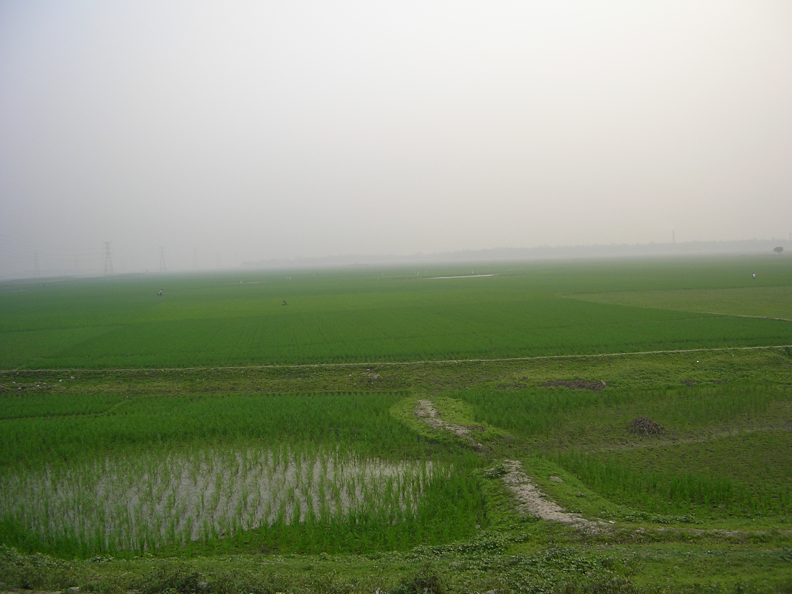 This image has been created by Arman Aziz